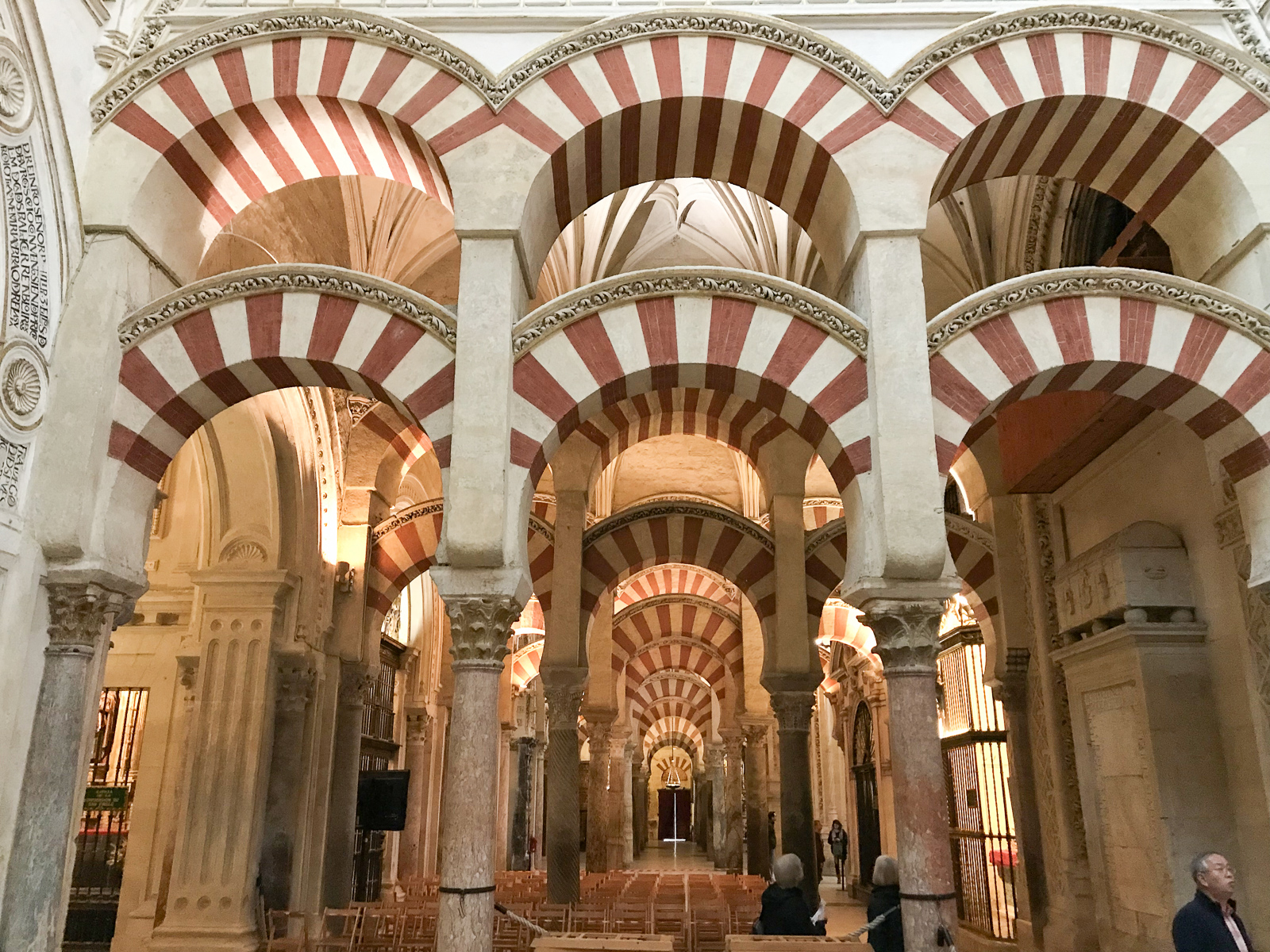 Foreveryoung Andalusia 2018